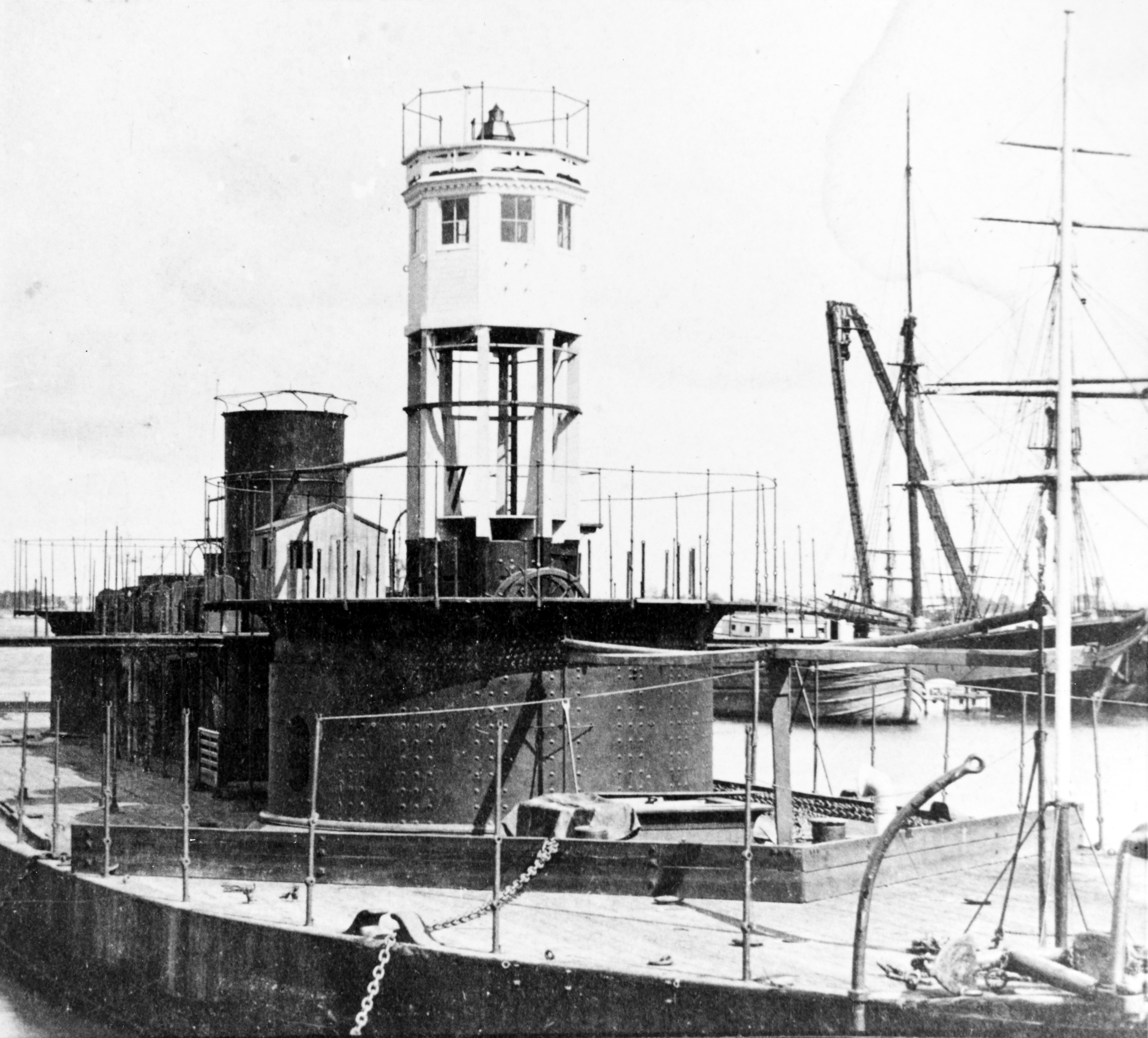 Bow view of the Miantonomoh-class monitor USS Agamenticus, renamed Terror in 1869, while laid up